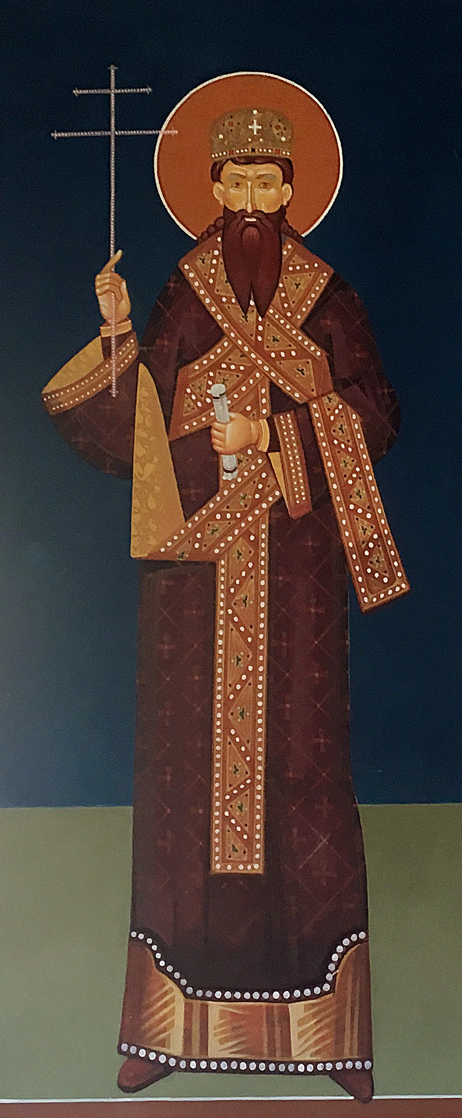 St. Stefan Dečanski (contemporary orthodox iconography) Serbia